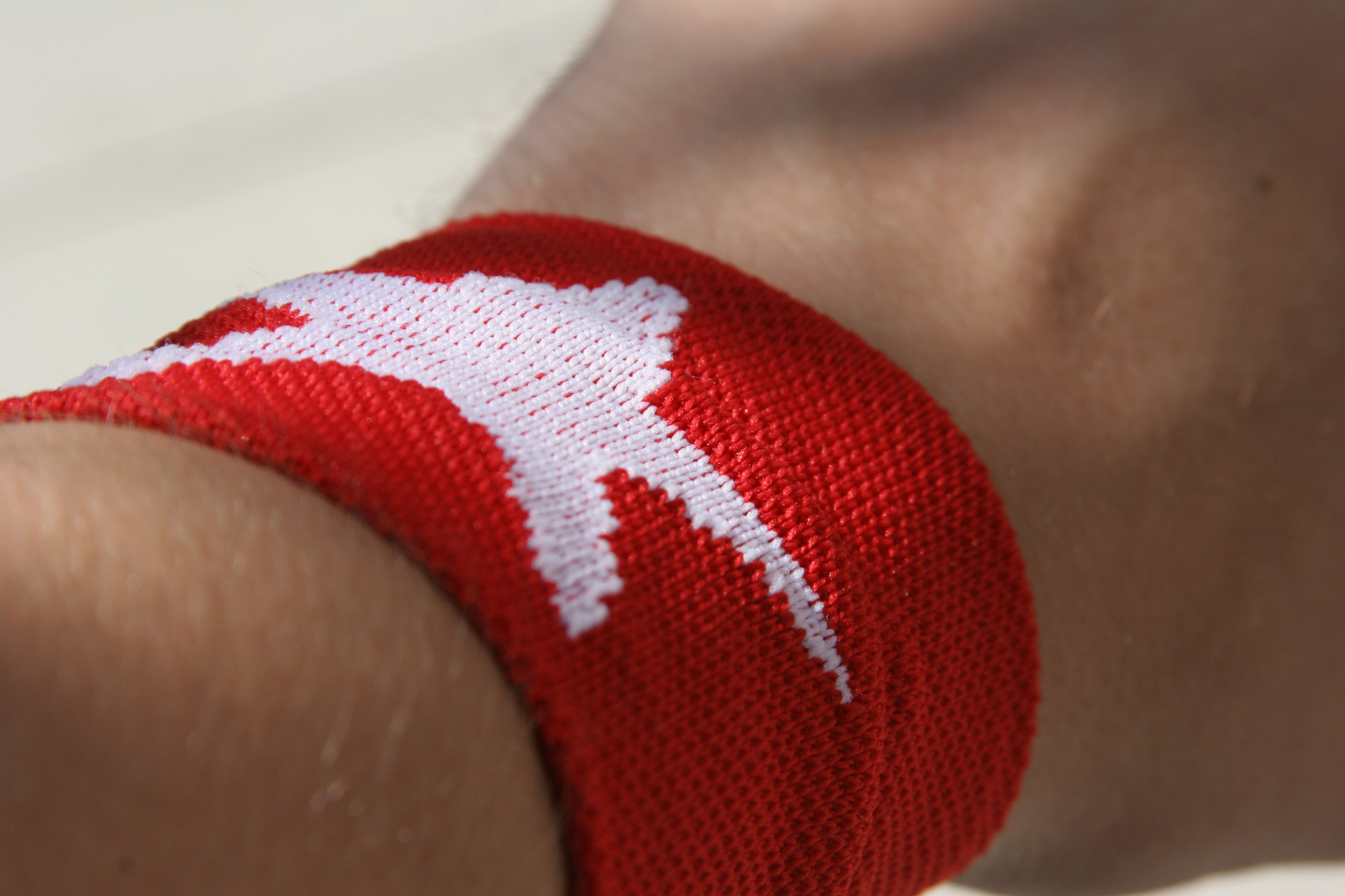 Impulse Wristband